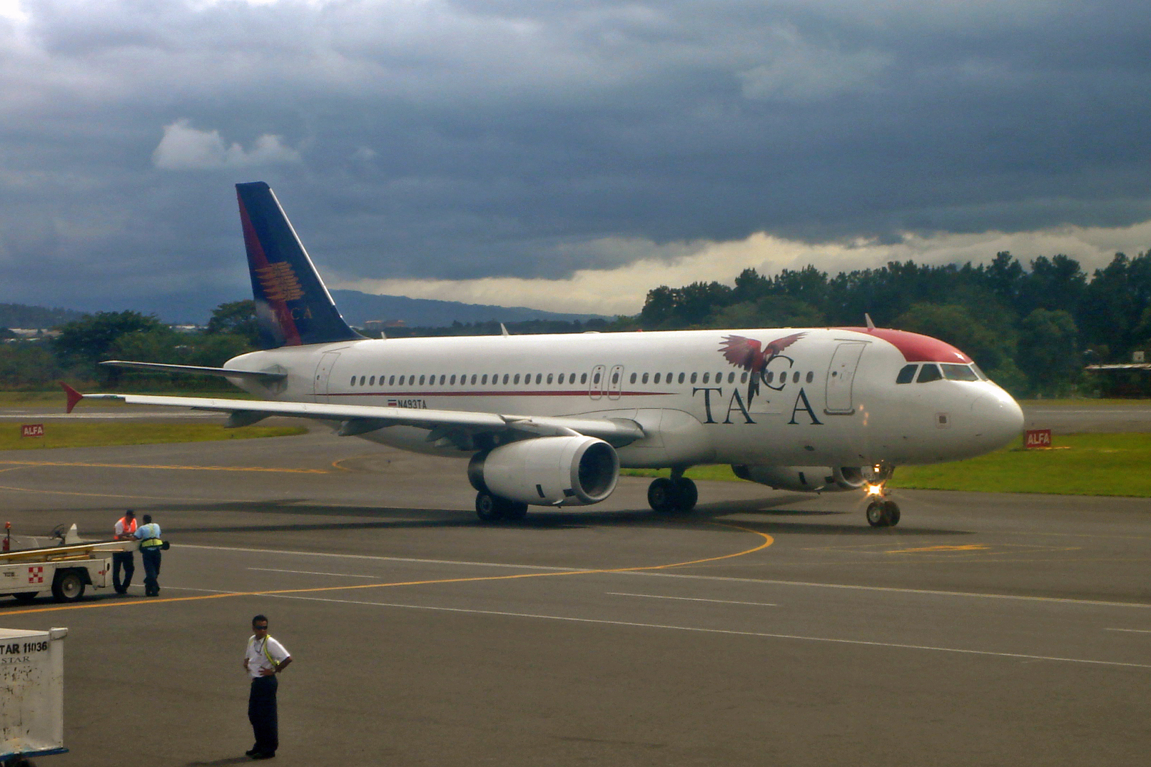 LACSA'a Airbus A320 (Costa Rican flag/register) flying under Grupo TACA at Juan Santamaria International Airport (SJO), Costa Rica